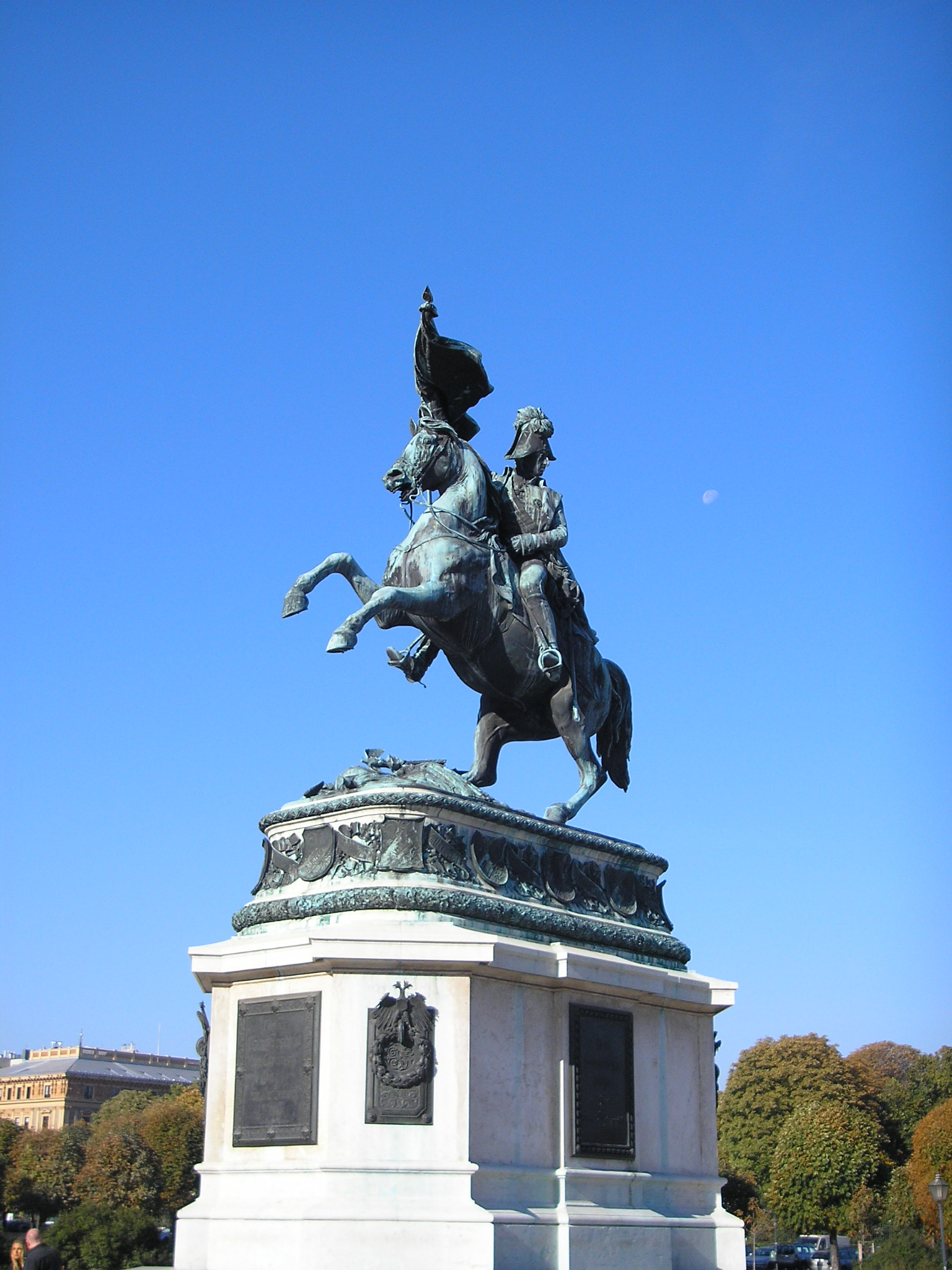 Statue of Archduke Charles of Austria, victor of Aspern over Napoleon. Statue on the Heldenplatz in Vienna. The moon can be seen in the back.